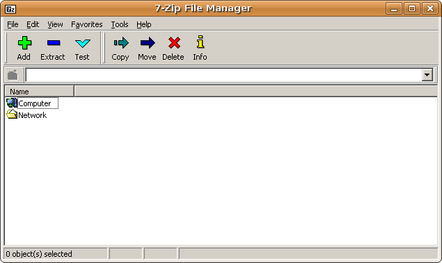 Screenshot of 7-Zip running on Linux (ubuntu) under Wine